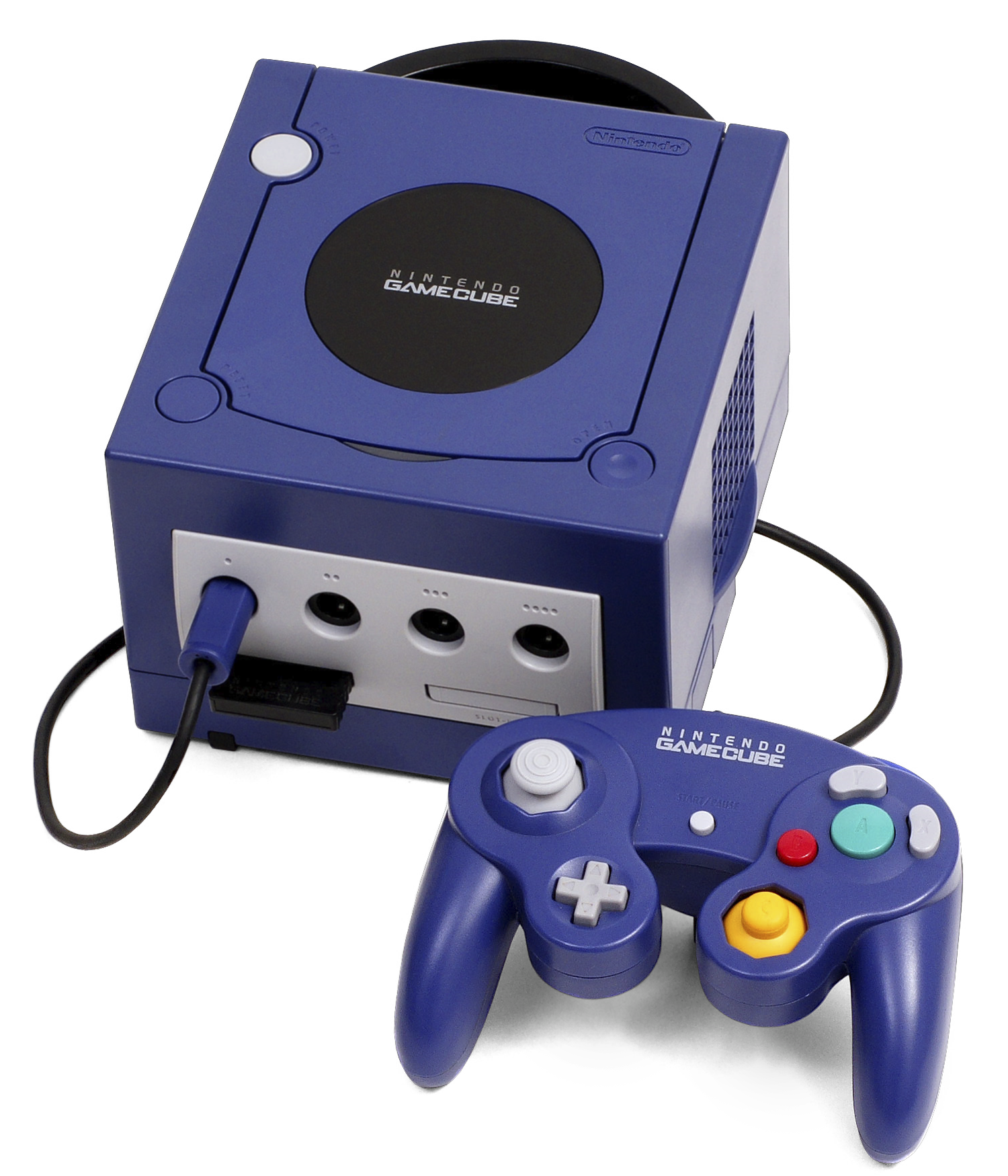 Nintendo GameCube console (U.S. version) with controller and memory card, in the original launch color of indigo (purple).